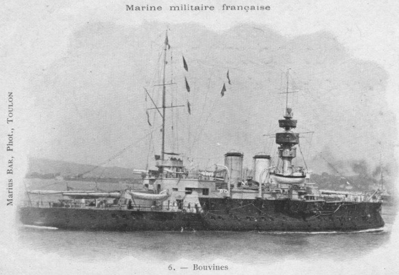 Armoured coast guard Bouvines (1889-1920). French postcard published between 1893 and 1918.[1],[2]